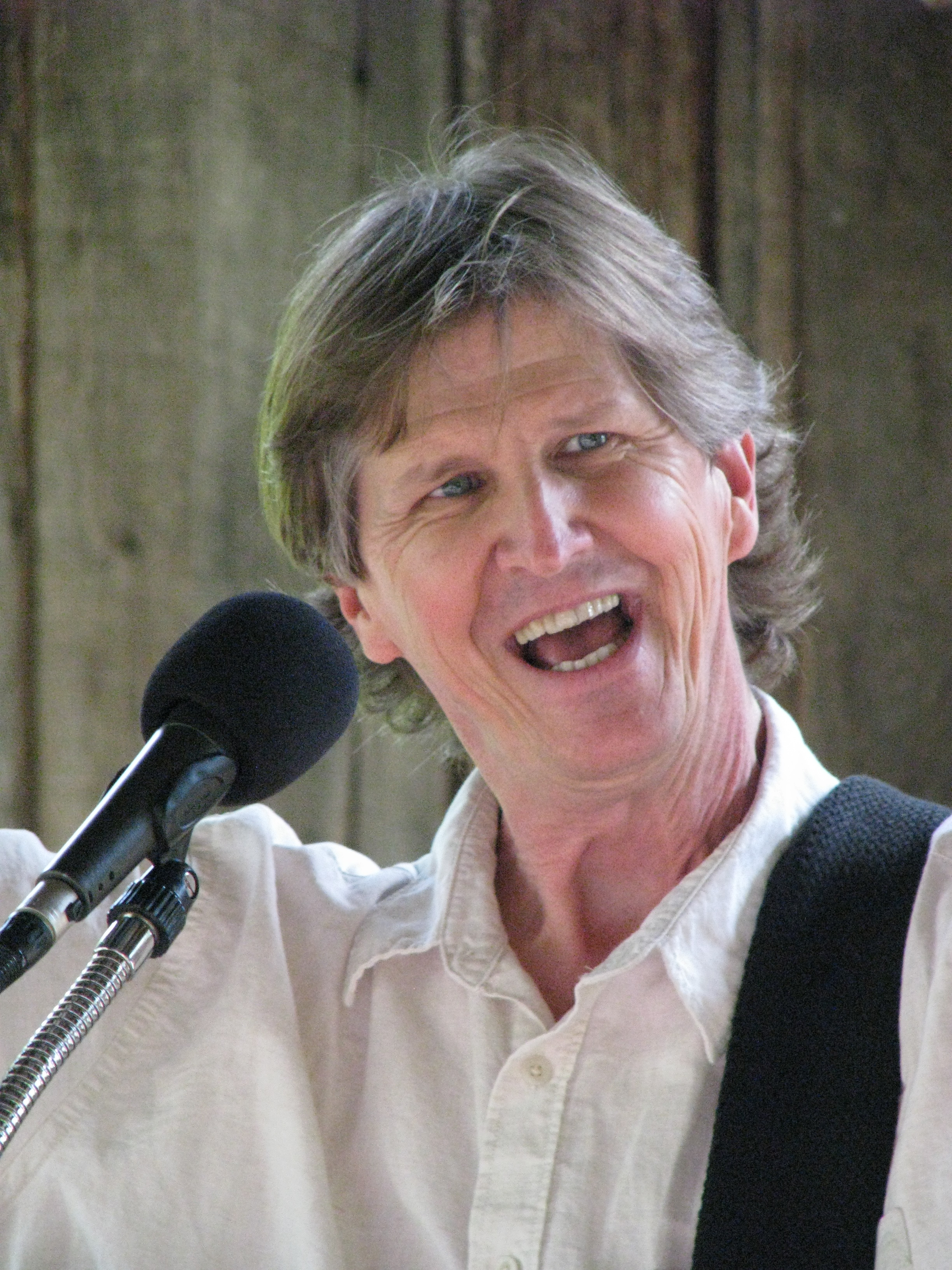 Andy Offutt Irwin, Atlanta Botanical Garden